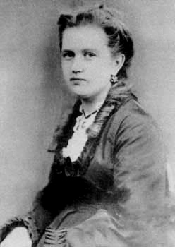 Alexandra Leontyevna Tolstaya, mother of novelist Aleksey Nikolayevich Tolstoy